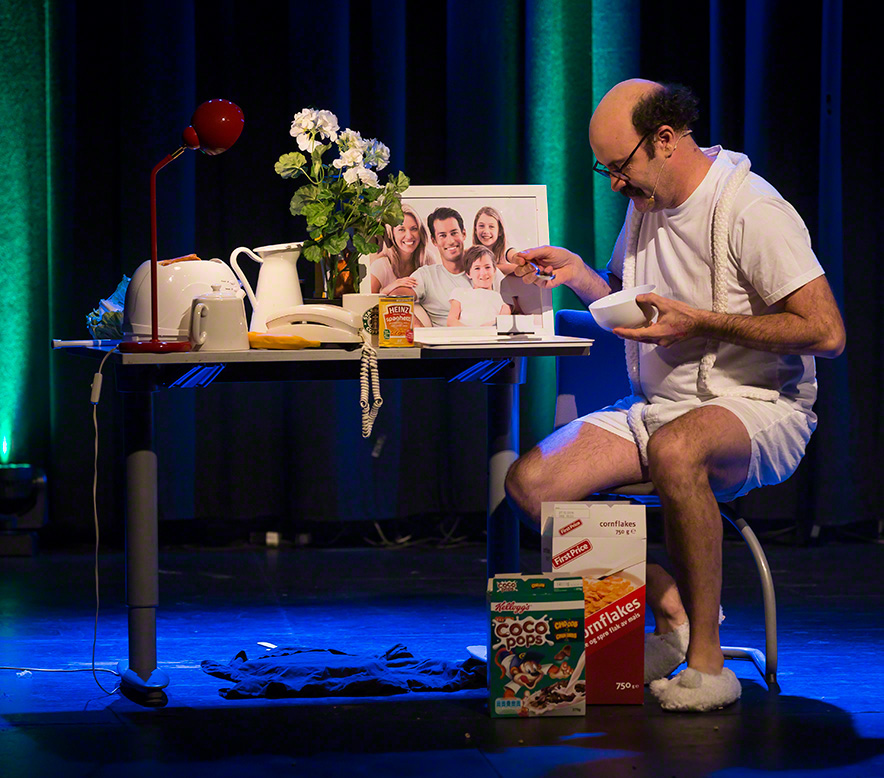 Sam Simmons performing 'Spaghetti for Breakfast' in January 2016. The Crap Comedy Festival takes place at Parkteateret in Oslo.